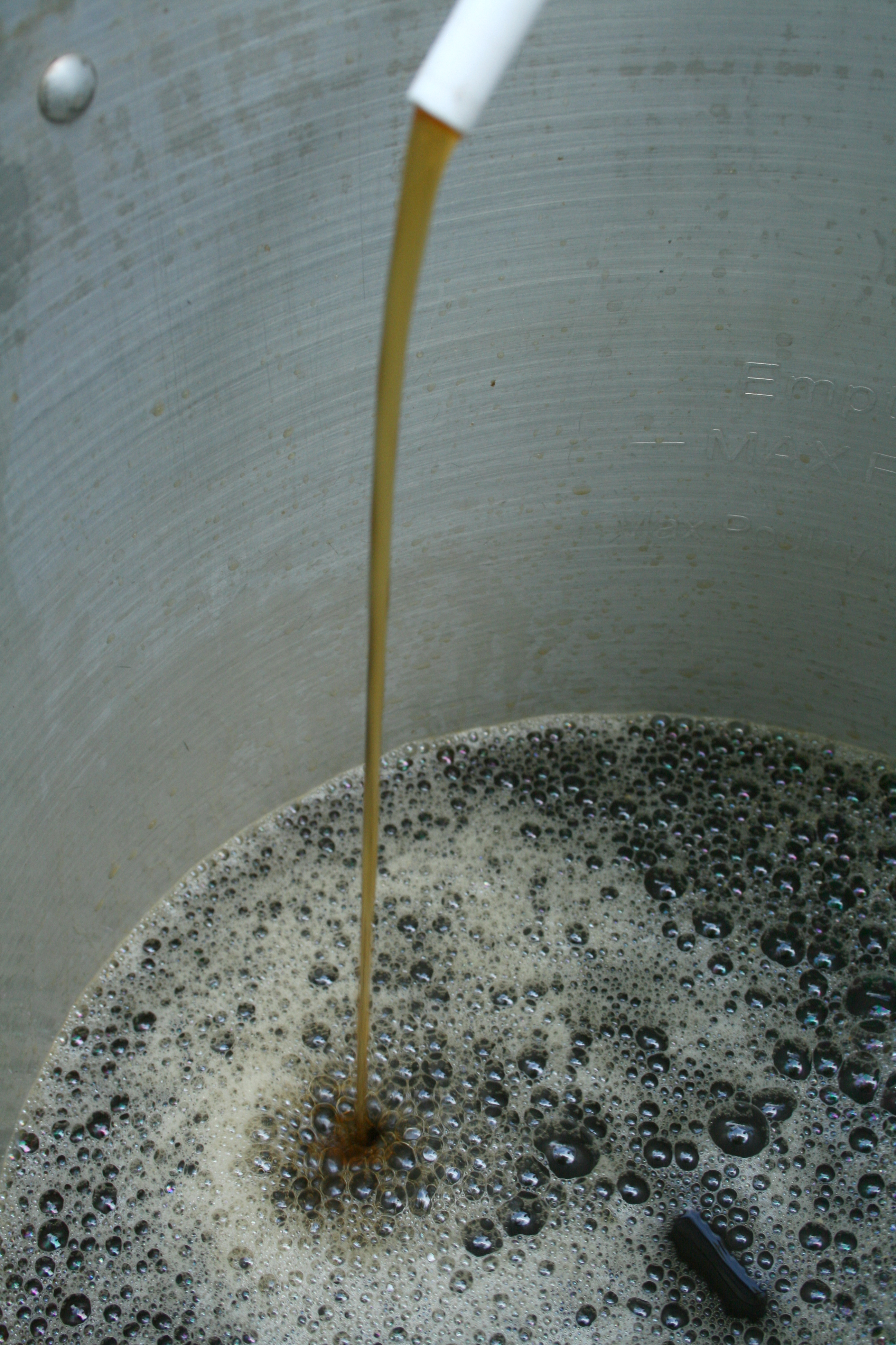 First wort run-off in The Don's customised all-grain homebrew waterfall setup at the Brew Master Store at 1900 East Geer Street in Durham, North Carolina.